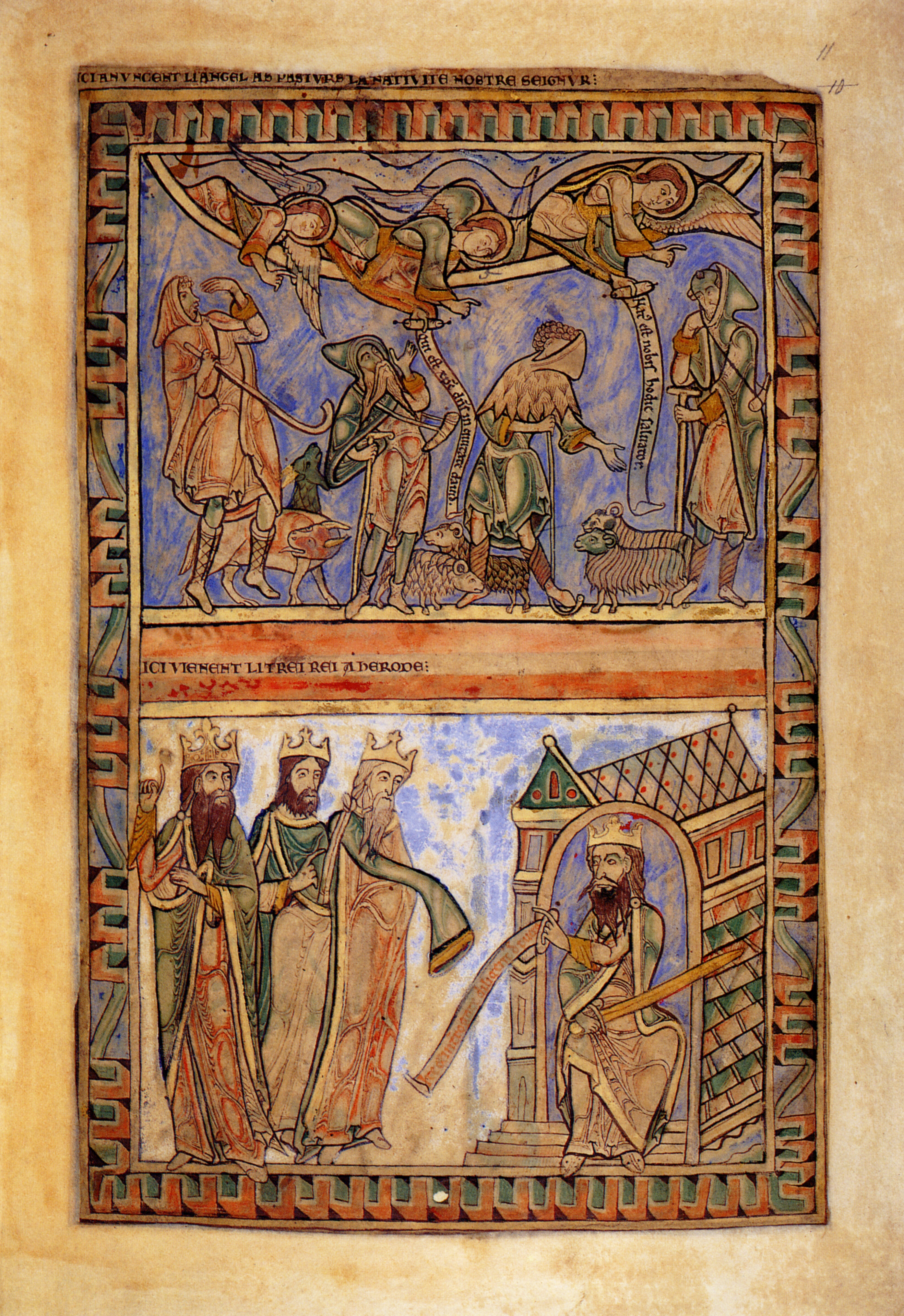 The Annunciation to the Shepherds (top) and the Magi before Herod (bottom), miniature, Winchester Psalter (Psalter of Henry of Blois), British Library, Cotton MS Nero C. iv, fol. 11